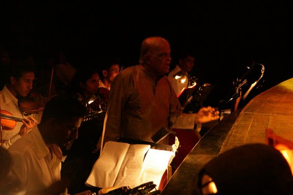 Picture of Khemadasa